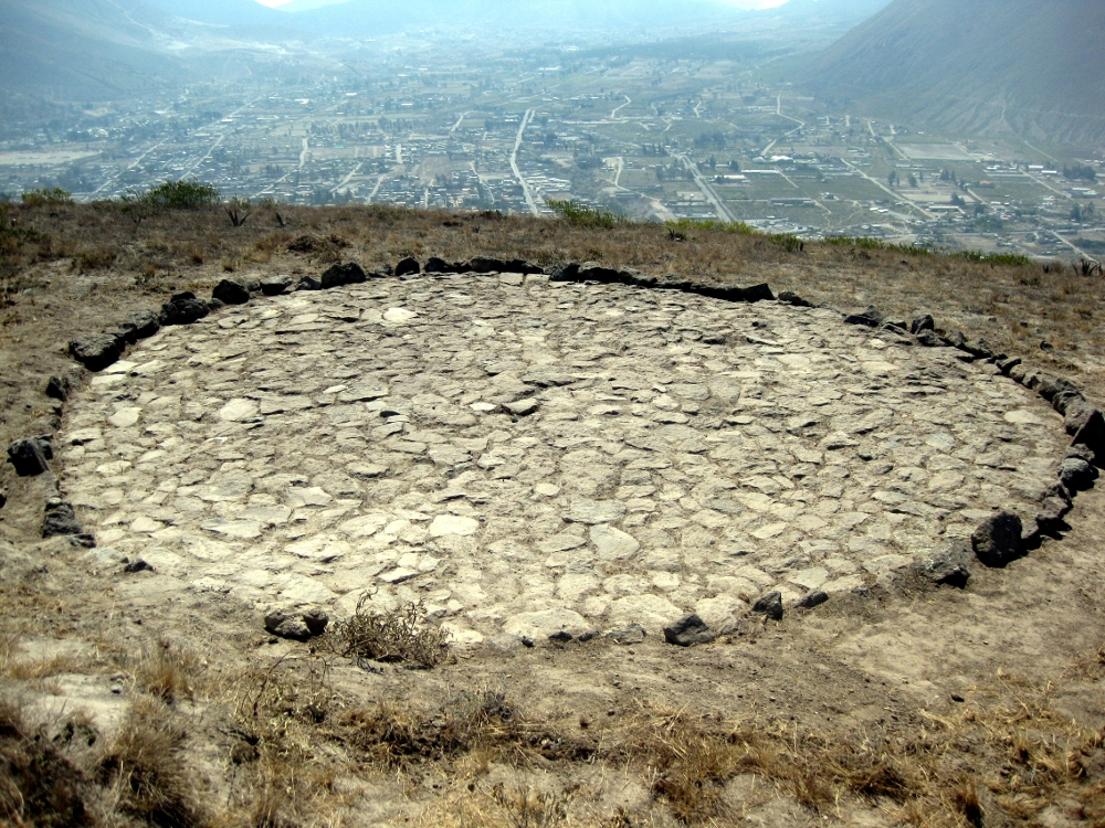 Catequilla's lithyc disk, found at top of Catequilla Archeological Site.